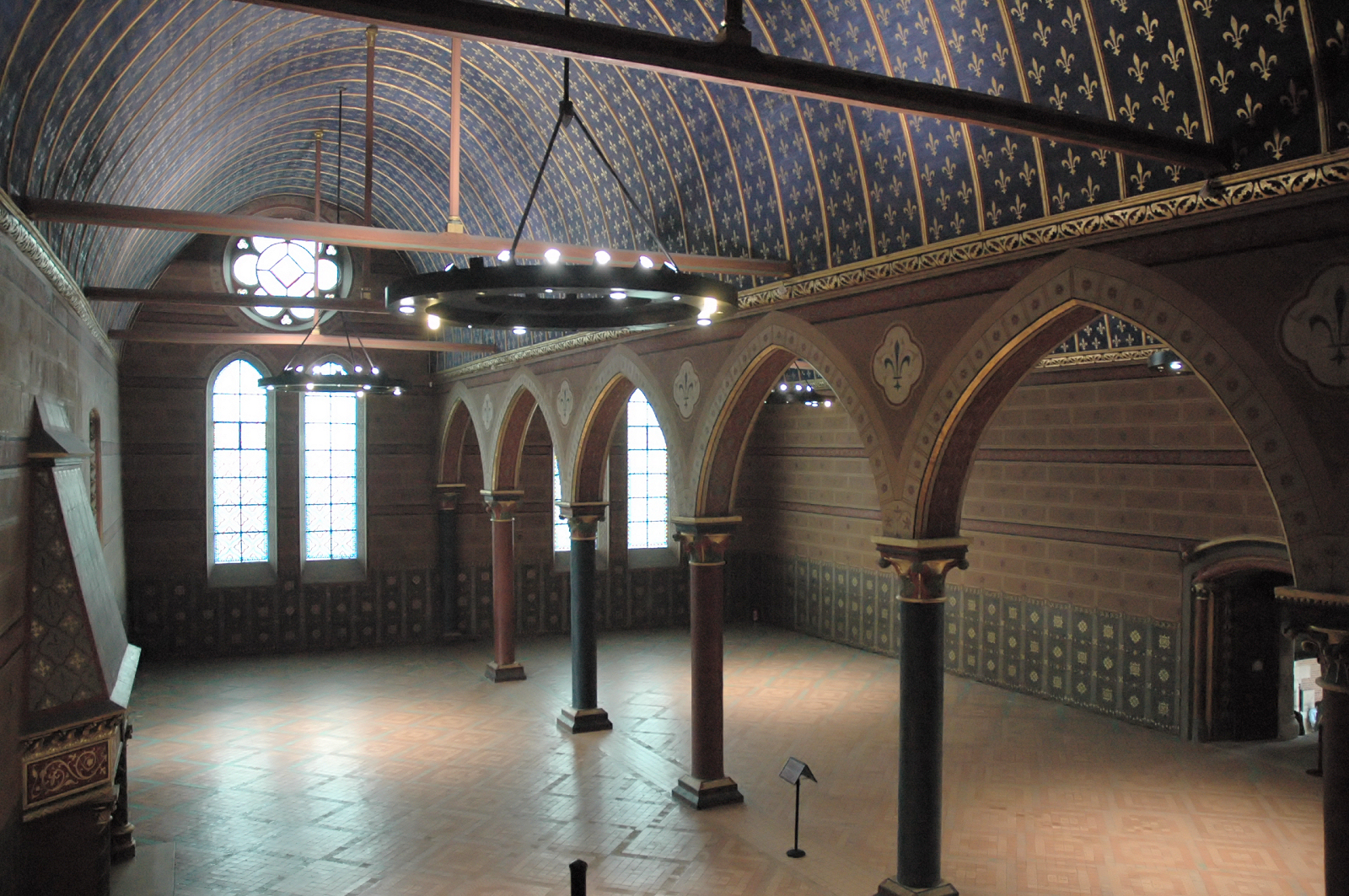 The Salle des États of the château de Blois